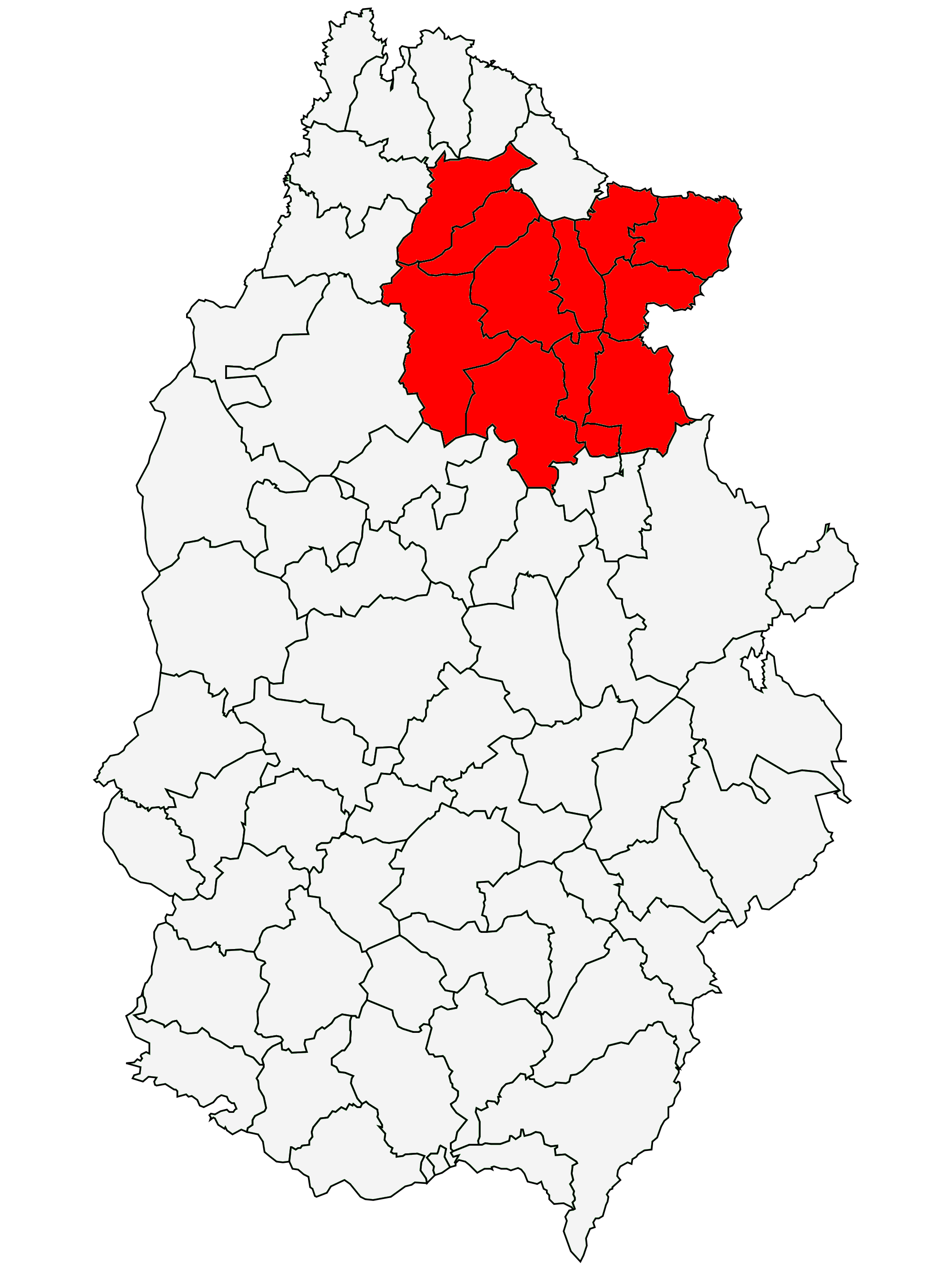 Mondoñedo